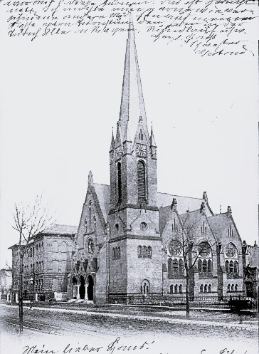 St. Matthews' in Lübeck